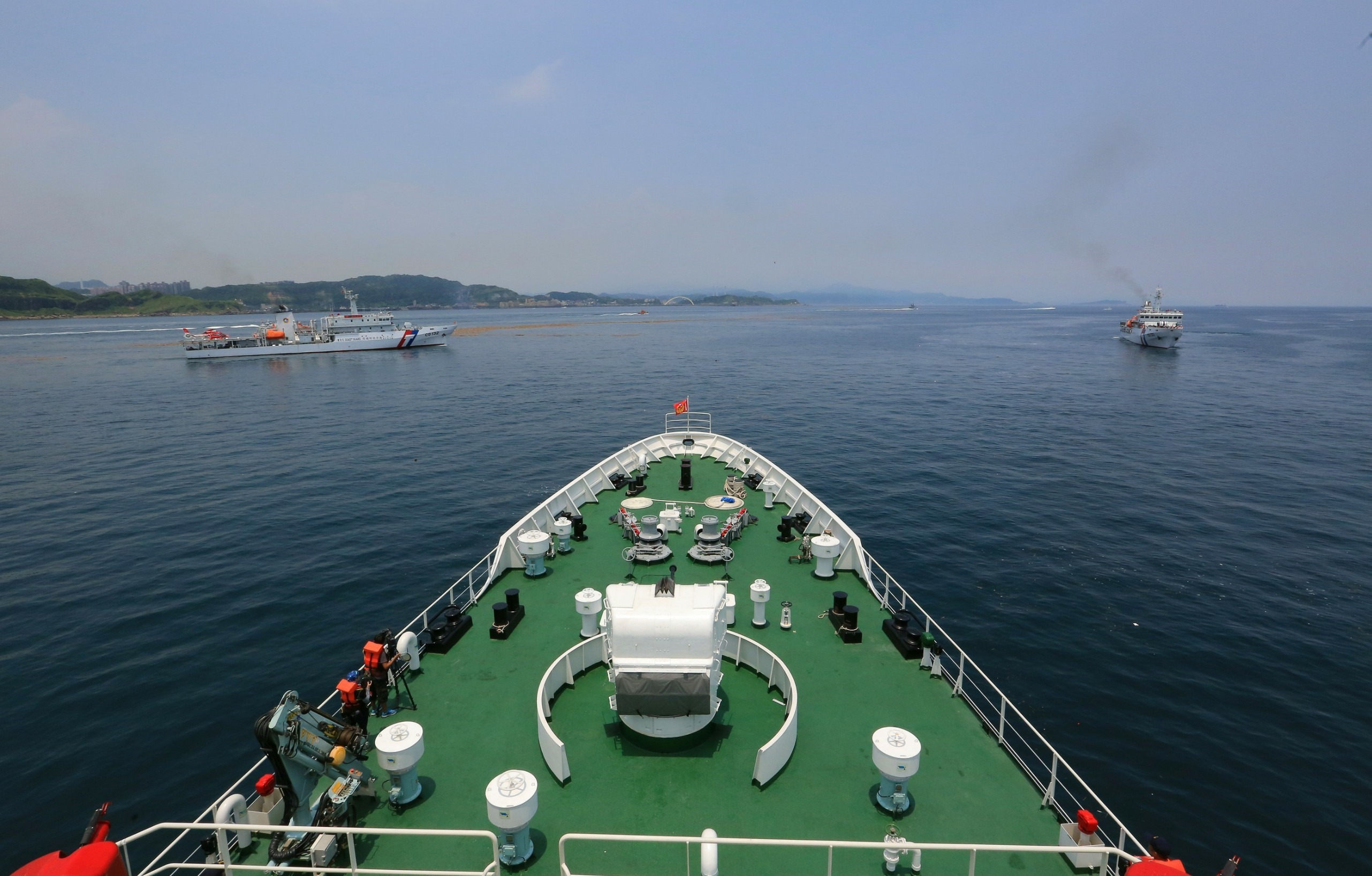 授權方式及範圍：中華民國總統府│政府網站資料開放宣告 Authorization Method & Scope: Office of the President, Republic of China (Taiwan) | Government Website Open Information Announcement